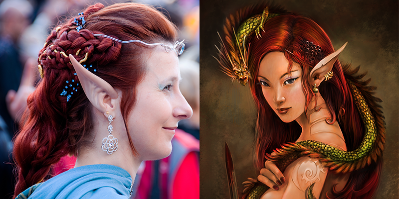 Pictures from Wikimedia